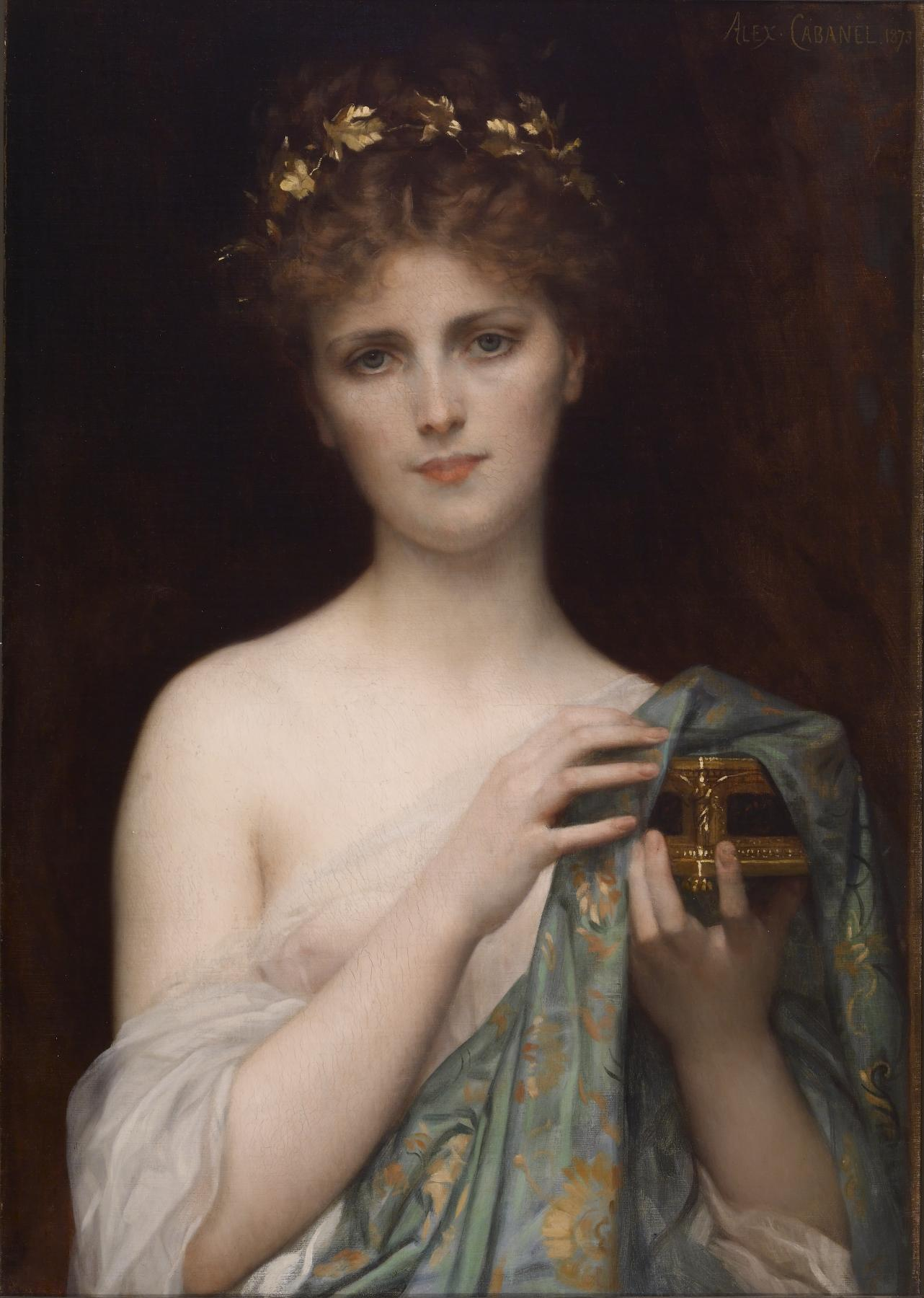 Cabanel, a professor of painting at the École des Beaux-Arts in Paris, specialized in portraits of "High Society." Here, he depicts the Swedish soprano Christine Nilsson as Pandora, the woman in Greek mythology who opened a forbidden box, releasing all the troubles that afflict humanity.